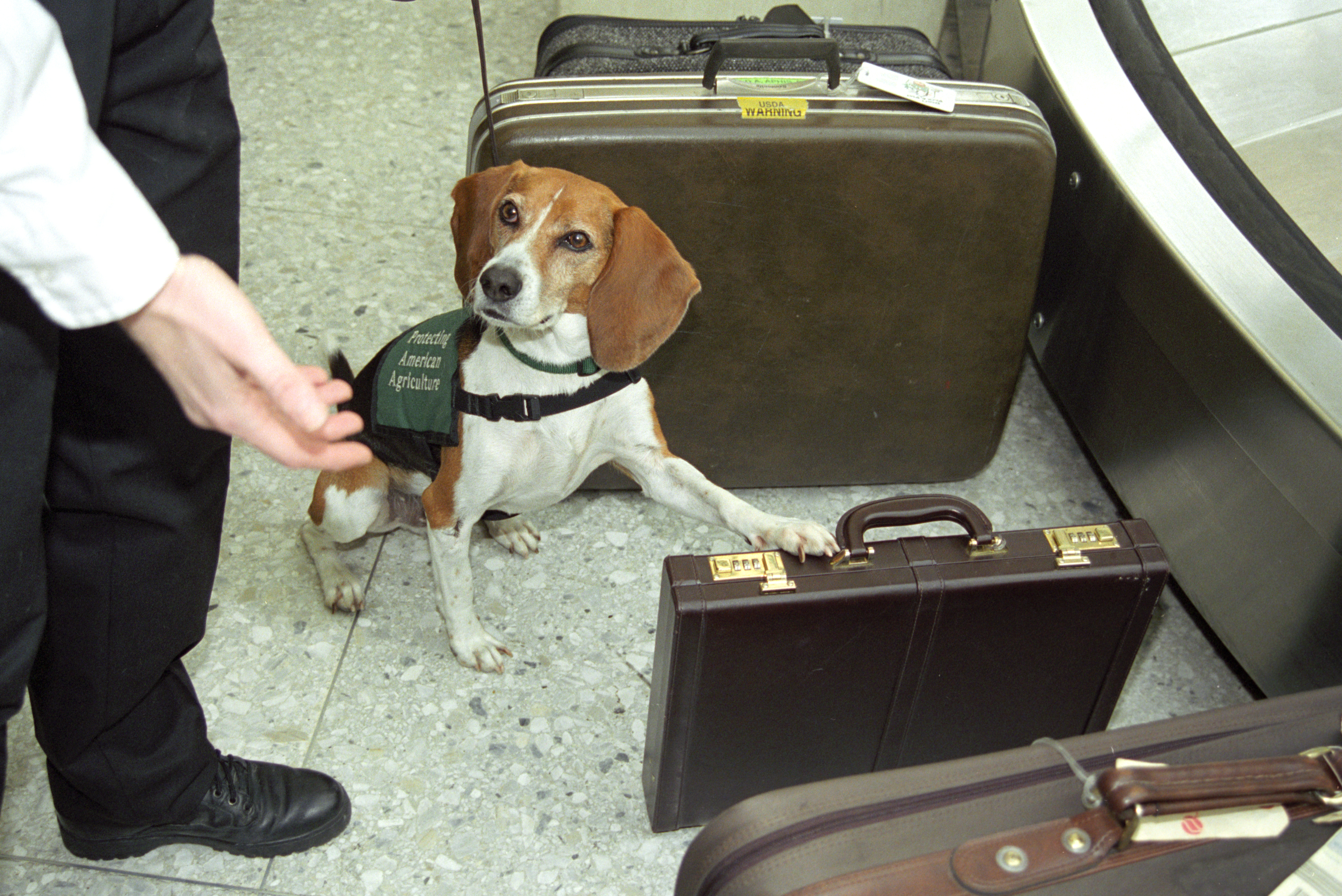 This beagle signals that a piece of luggage contains contraband at Washington Dulles International Airport in Chantilly, VA on March 14, 2001. The Beagle Brigade is a team of beagles and their human handlers who, as part of the U.S. Department of Agriculture's (USDA) Animal and Plant Health Inspection Service (APHIS) inspect luggage at U.S. airports searching for agricultural products. The Beagle Brigade program averages around 75,000 seizures of prohibited agricultural products a year. Unauthorized meat, animal byproducts, fruit and vegetables can carry diseases and pests that have the potential to infect U.S. agriculture. APHIS works in conjunction with the U.S. Customs and Border Protection and the U.S. Public Health Service at entry points to the U.S., including land borders, ports and airports. The Beagle Brigade generally works in the baggage-claim area at international airports. After 911, the Beagle Brigade is under the authority of Homeland Security. USDA photo by Ken Hammond.